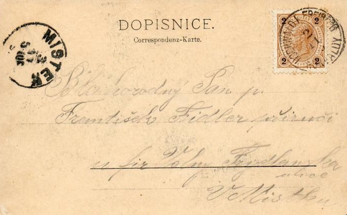 Postcard with a 2 kreuzer stamp, bilingual cancelled HOCHWALD b.FREIBERG - HUKVALDY on 2-11-1899, plus arrival mark in MISTEK